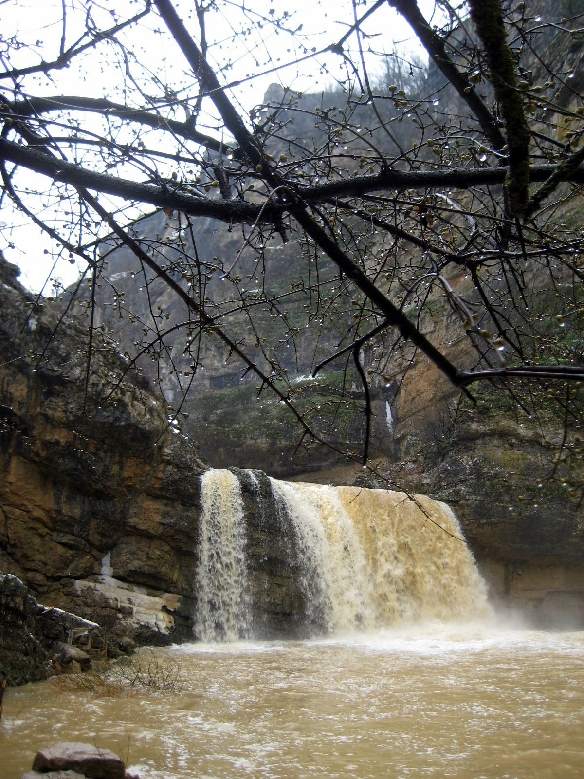 Photos from Arianit Dobroshi for Wikimedia Commons. Original Filename "arianit/Mirusha Waterfalls Winter Hike/image62.jpg"